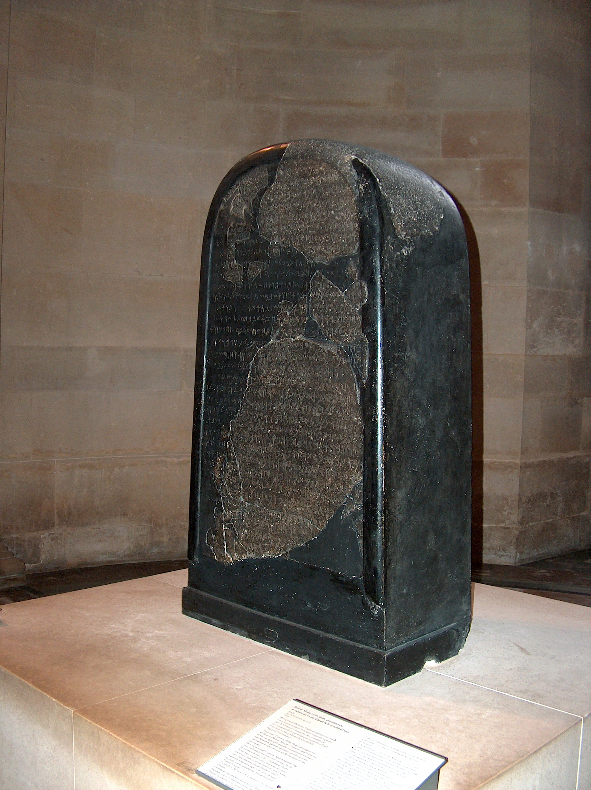 Mesha Stele: stele of Mesha, king of Moab, recording his victories against the Kingdom of Israel. Basalt, ca. 800 BC. From Dhiban, now in Jordan.